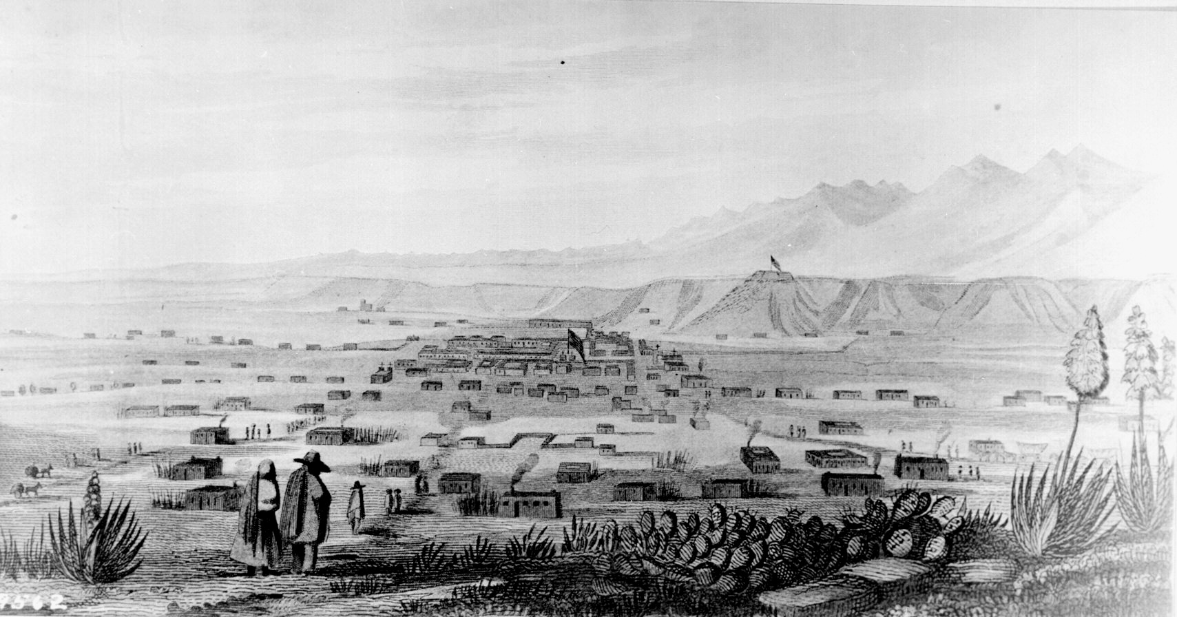 "La Ciudad de Santa Fe." Engraving from "Report of Lt. J. W. Abert of his Examination of New Mexico in the Years 1846-1847."